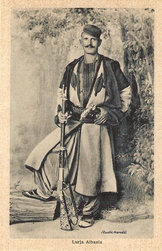 Photograph of an Albanian man from Lurja by Pjetër Marubi.